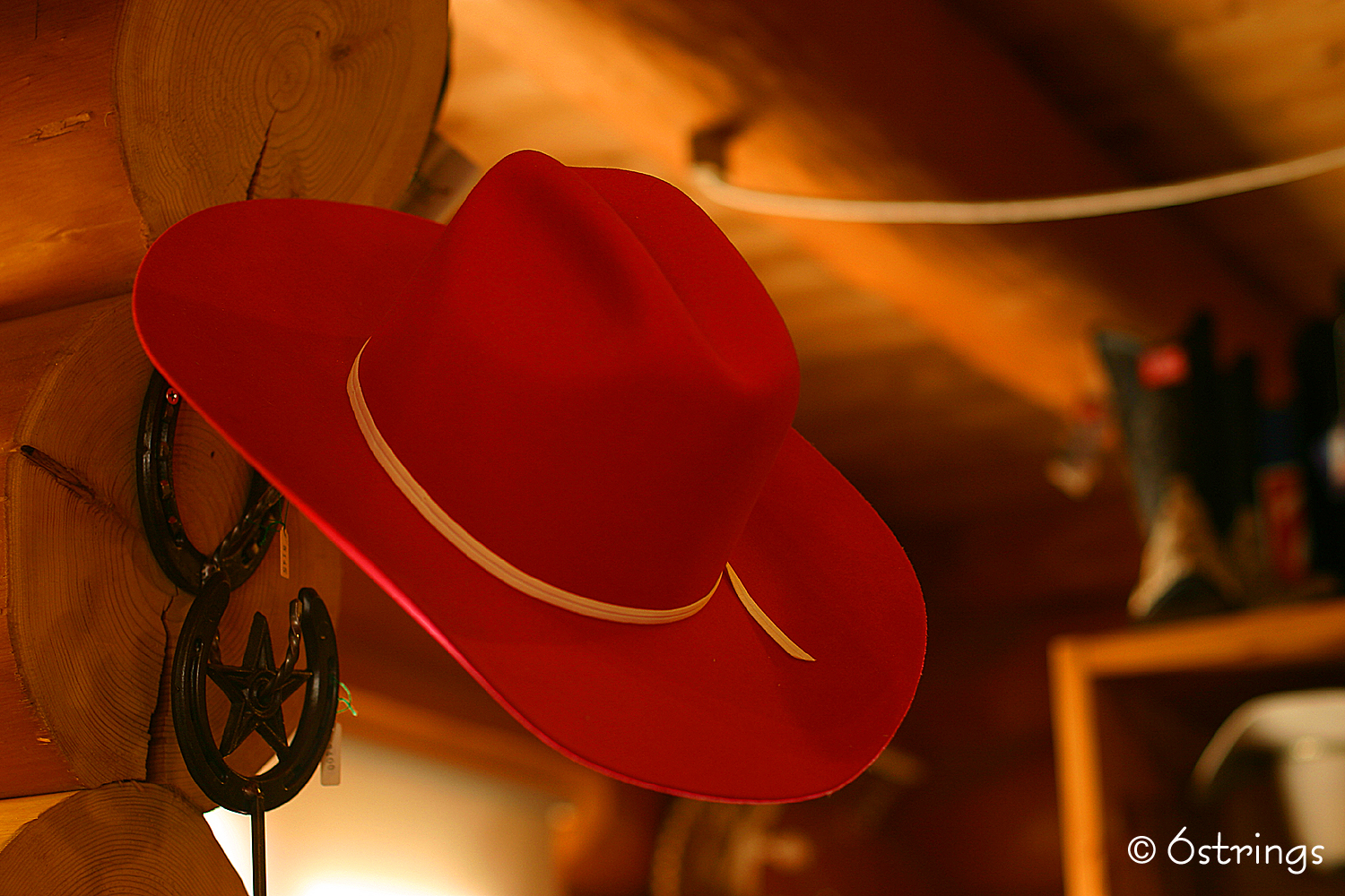 Red cowboy hat